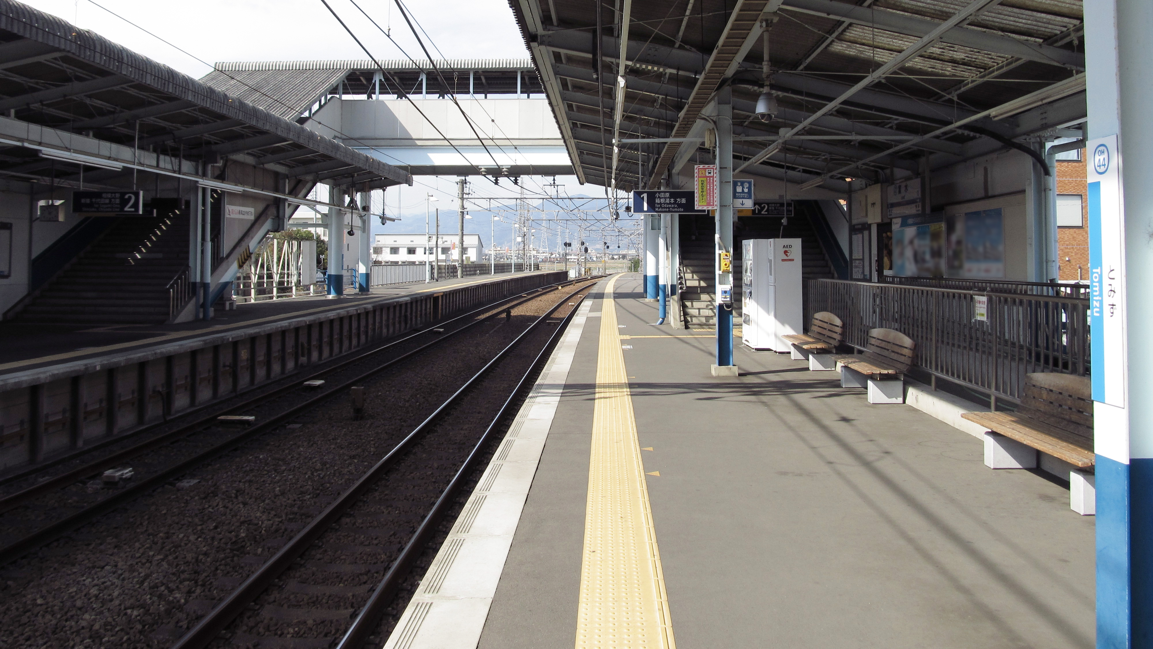 The platforms at Tomizu Station on the Odakyū Electric Railway Odawara Line in Odawara city, Kanagawa, Japan